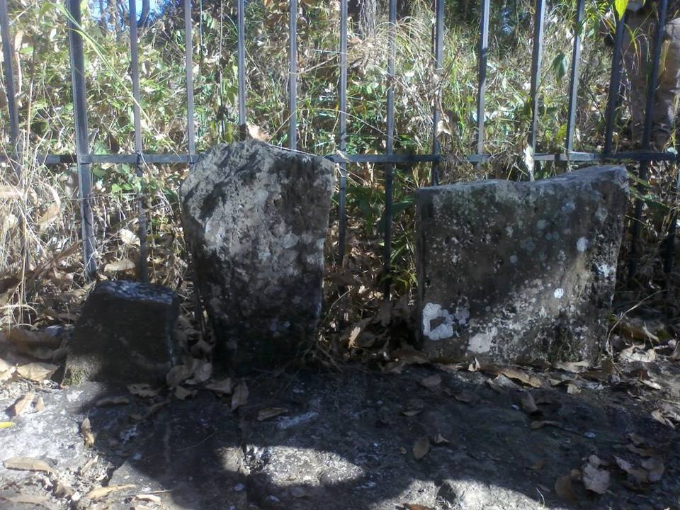 Tuani Lung